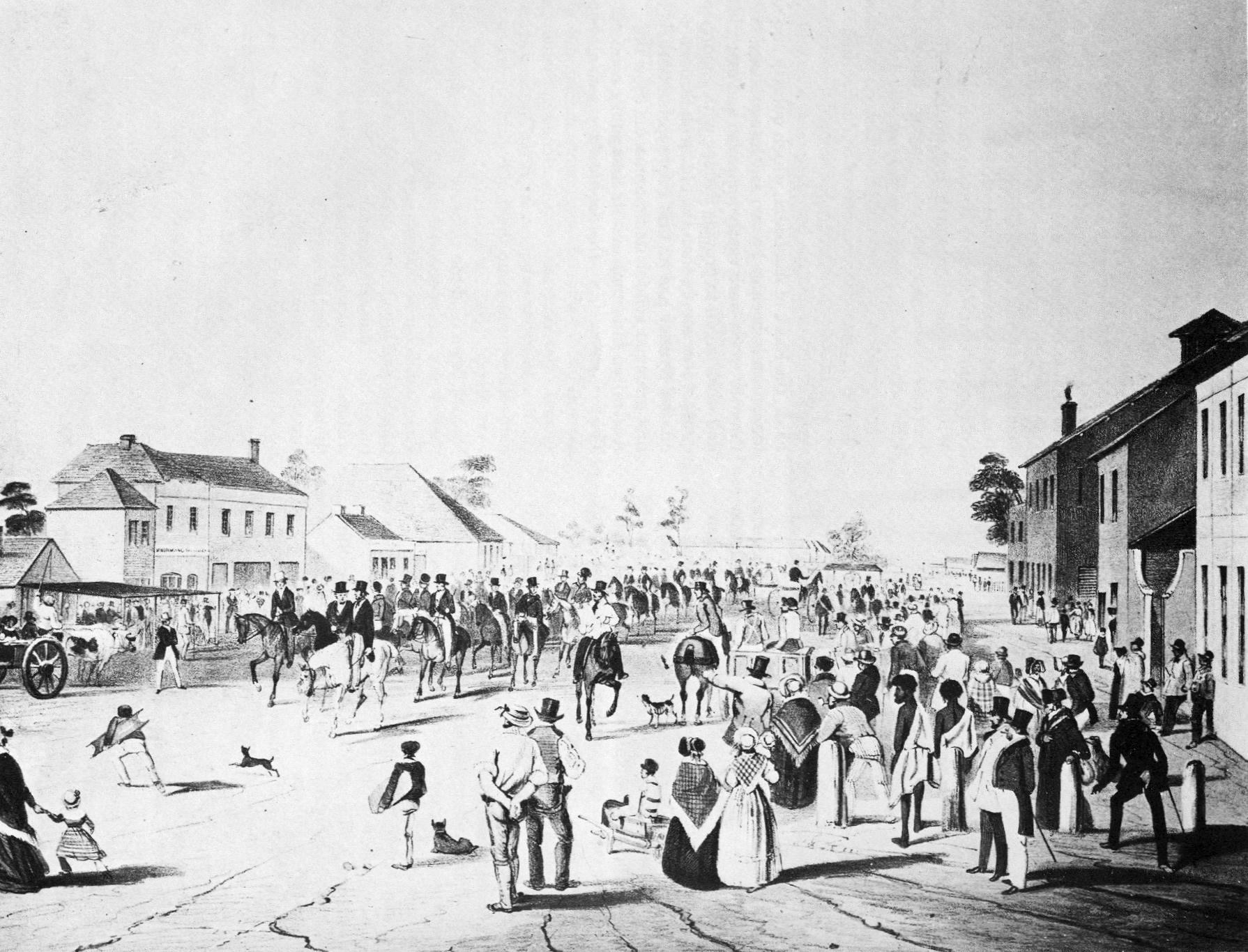 Captain Charles Sturt leaving Adelaide Australia 1844, scanned from a book.